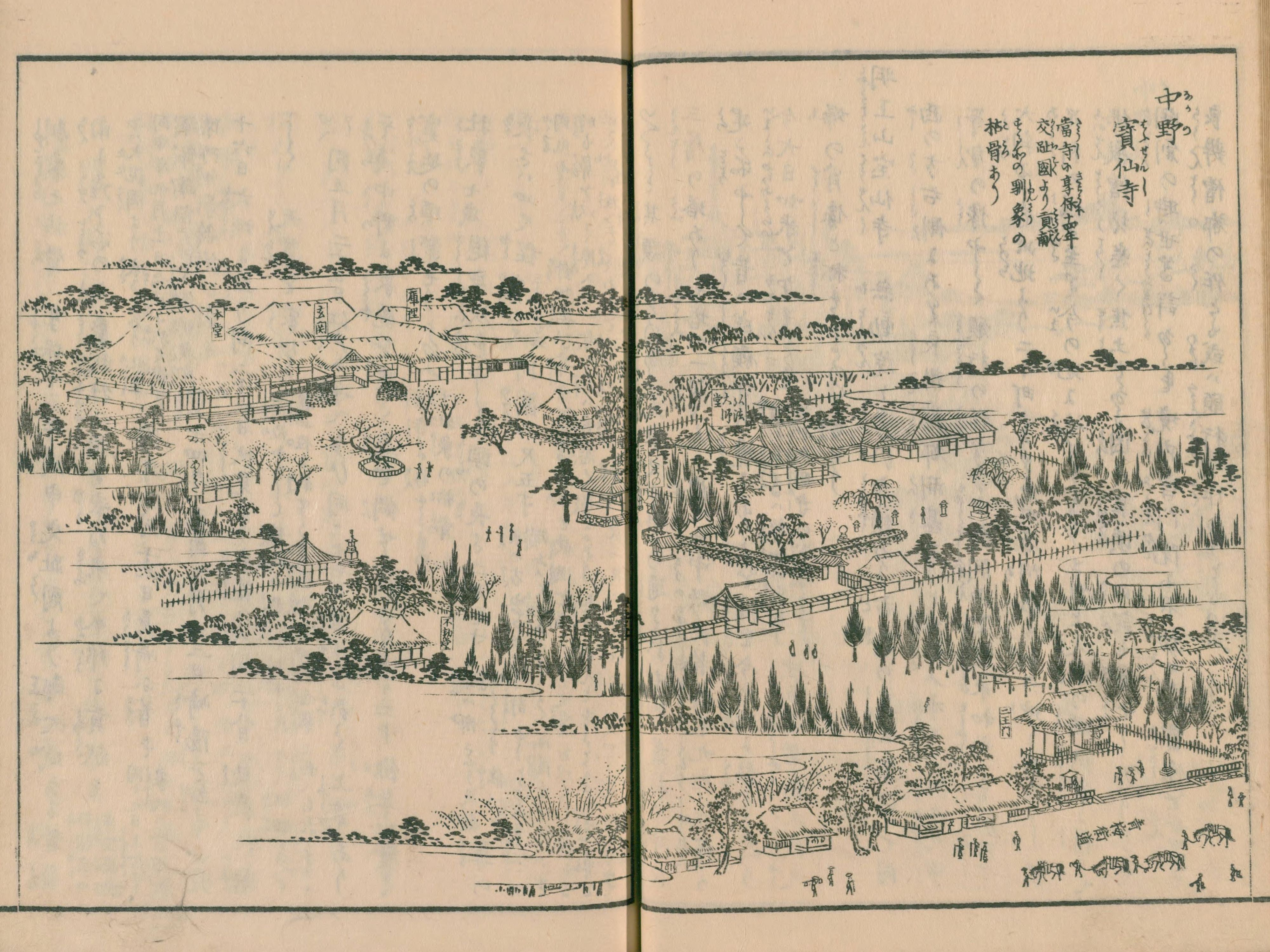 Hōsen-ji temple, Nakano in Edo Meisho Zue vol. 4 (book 11)